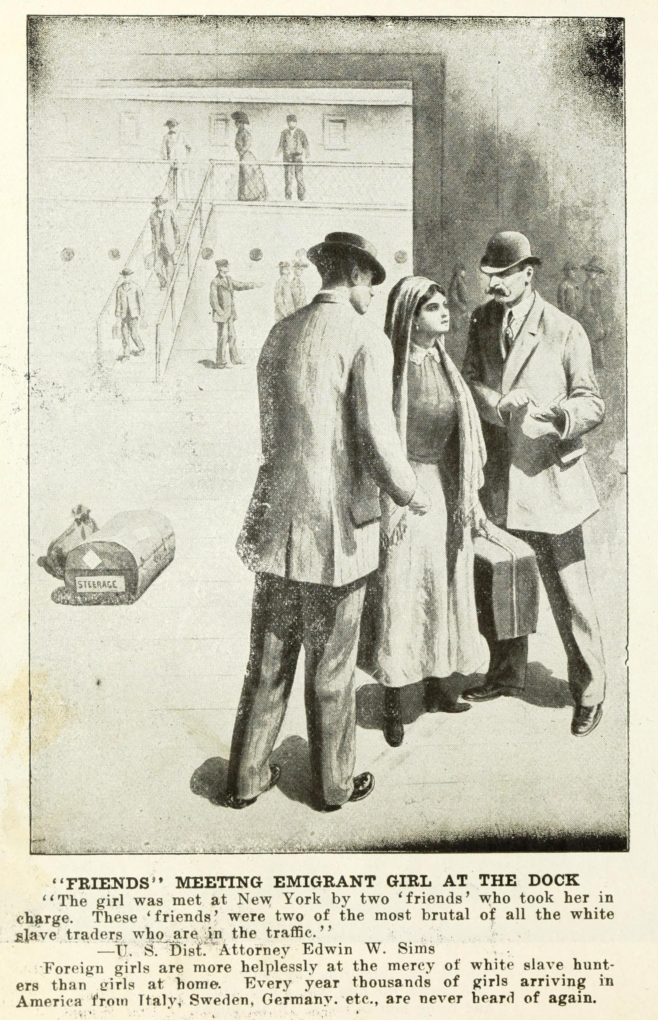 Title: Fighting the traffic in young girls, or, War on the white slave trade (electronic resource) : a book designed to awaken the sleeping and to protect the innocent a complete and detailed account of the shameless traffic in young girls ... Year: 1911 (1910s) Authors: Bell, Ernest A. (Ernest Albert), 1865-1928 Chicago (Ill.). Vice Commission Subjects: Prostitution Publisher: (Chicago? : L.H. Walter?) Text Appearing Before Image: Go for my wandering boy tonight. Go search for him where you will;And bring him to me in all his plight, And tell him I love him still. - 3&2k - .V Text Appearing After Image: FRIENDS MEETING EMIGRANT GIRL AT THE DOCK -The eiri was met at New York by two friends who took her incharge Tnese friends were two of the most brutal of all the whitefilave traders who,.are in the traffic, _ tt I Dist Attorney Edwin W. Sims Foreign girls are more helplessly at the mercy of white slave hunt-ers thaT ,i?ls at home. Every year thousands of girls ™America fjoin Italy, Sweden, Germany, etc., are never heard of again. •i v WHITE SLAVE TRADE 135 is the prejudice against fallen girls and thefact that because a woman is fallen seems to bejust cause to convict her of every other crimein the decalogue, thus removing her from theDale of helpful sympathy which is extended toalmost every other class of unfortunate beings.Even convicted murderers and kidnapers aretreated with more intelligent sympathy. Everystatement which she makes isat once consid-ered to be untrue. So far has this prejudicegone that in the state of Missouri, in a deci-sion by its supreme court, made some yea